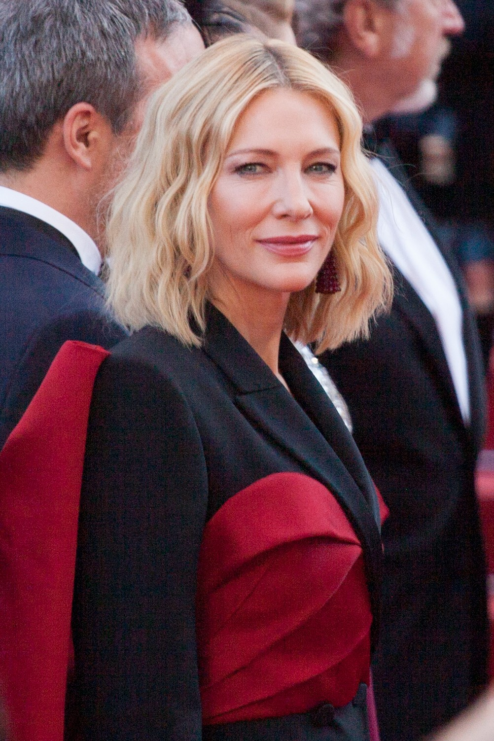 Cate Blanchett at Cannes in 2018.